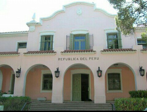 Cruz del Eje